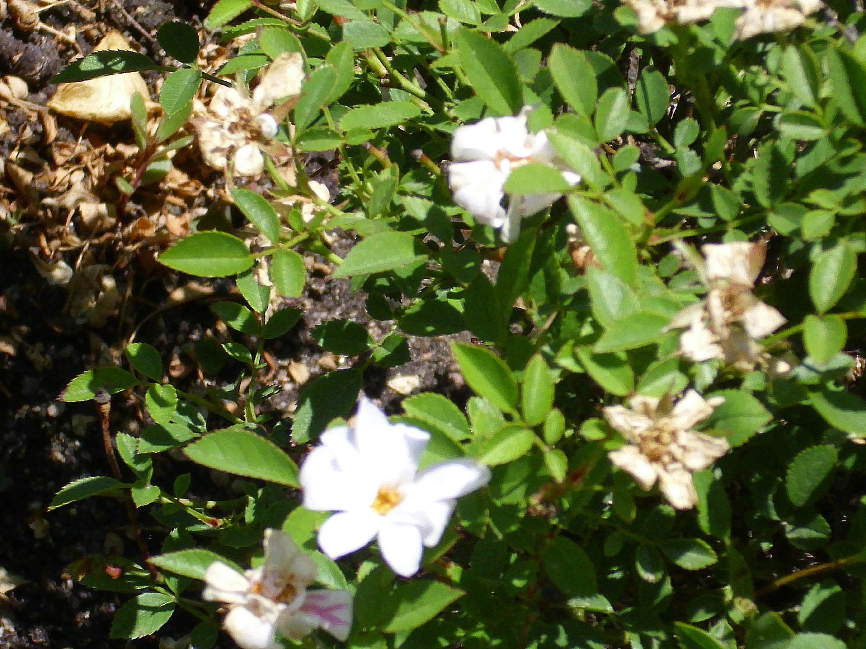 Rosa 'Si' Dot 1957, in the "Rosaleda del Parque del Oeste" in Madrid. Identified by sign. Recognized as the smaller miniature rose on the world